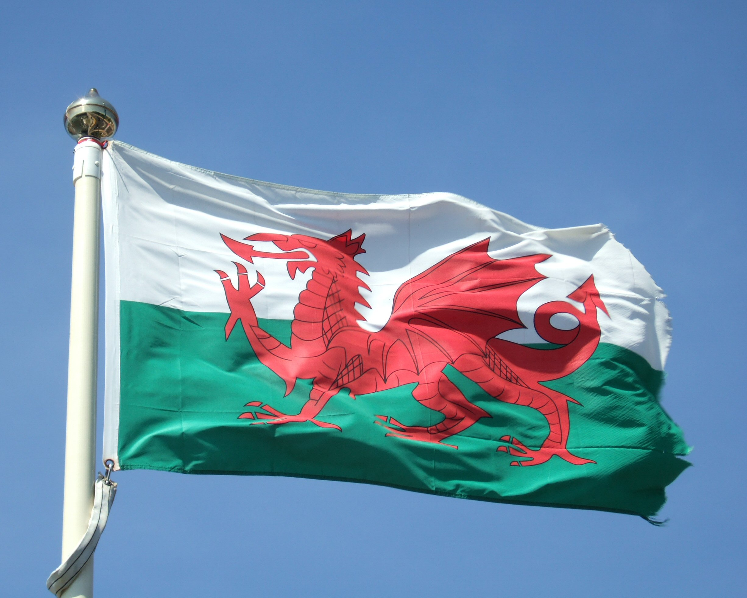 Flag of Wales (Y Ddraig Goch, Welsh for the Red Dragon), taken by Calum Hutchinson.